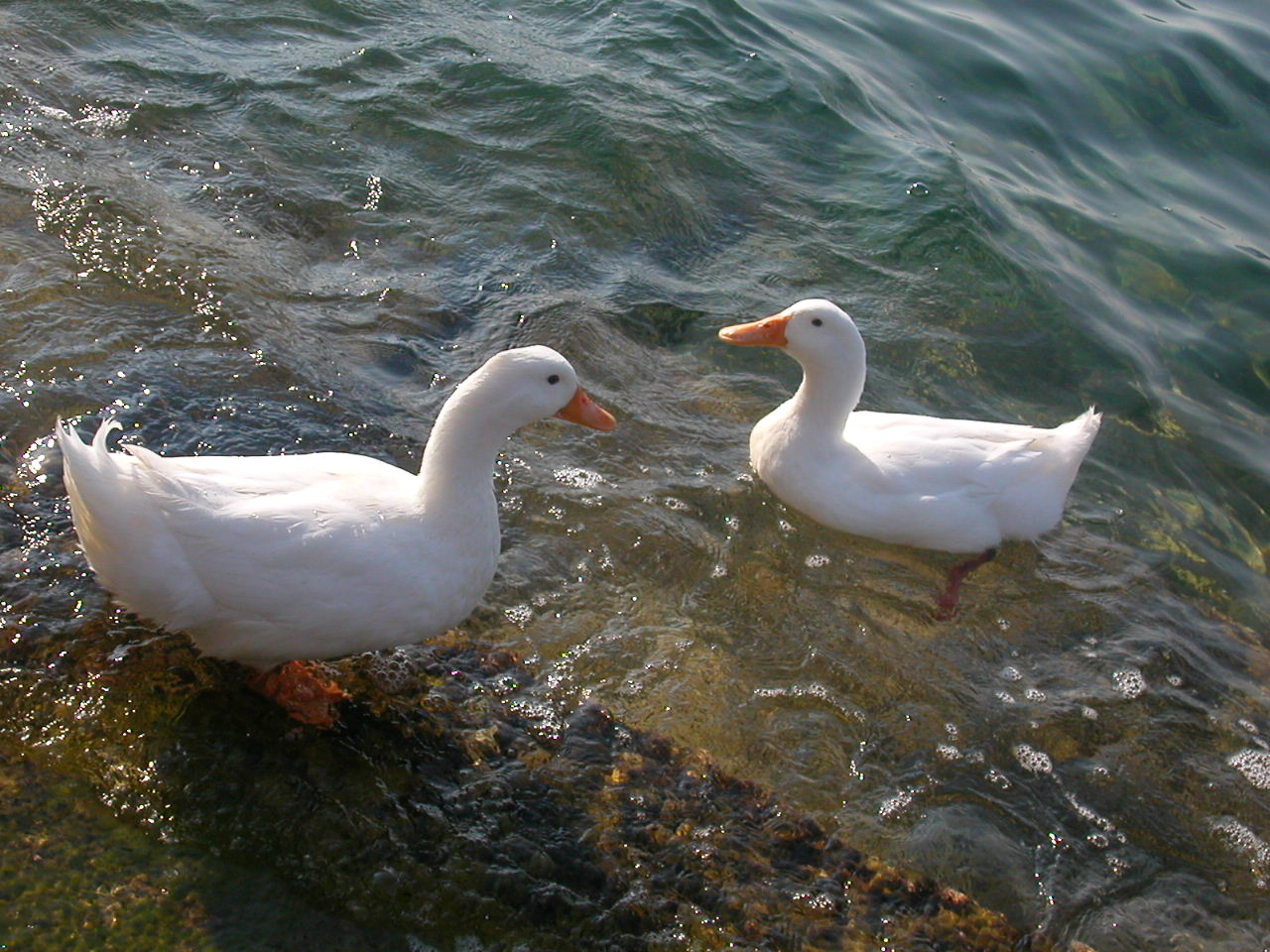 White ducks